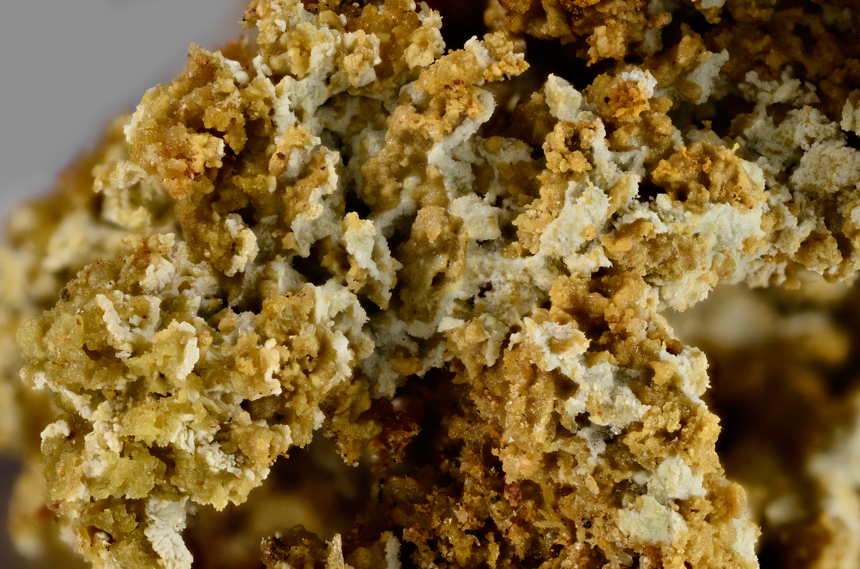 Alperiste, Slavíkite (File of view: 12 mm) Locality: Prenterwinkelgraben (Bärndorfer Graben), Bärndorf, Rottenmann, Liesing - Palten valley, Styria, Austria Original description: Anhedral grains and aggregates of alpersite (white, with very slight greenish tint; SXRD- and EDS-analysed) on pale yellow-brown crusts of slavikite (PXRD- and EDS-analysed). This specimen is described in Kolitsch, U. (2014): 1992) Alpersit und Slavikit vom Prenterwinkelgraben bei Barndorf, Paltental, Steiermark. P. 137 in Niedermayr, G. et al. (2014): Neue Mineralfunde aus Österreich LXIII. Carinthia II, 204./124., 65-146.